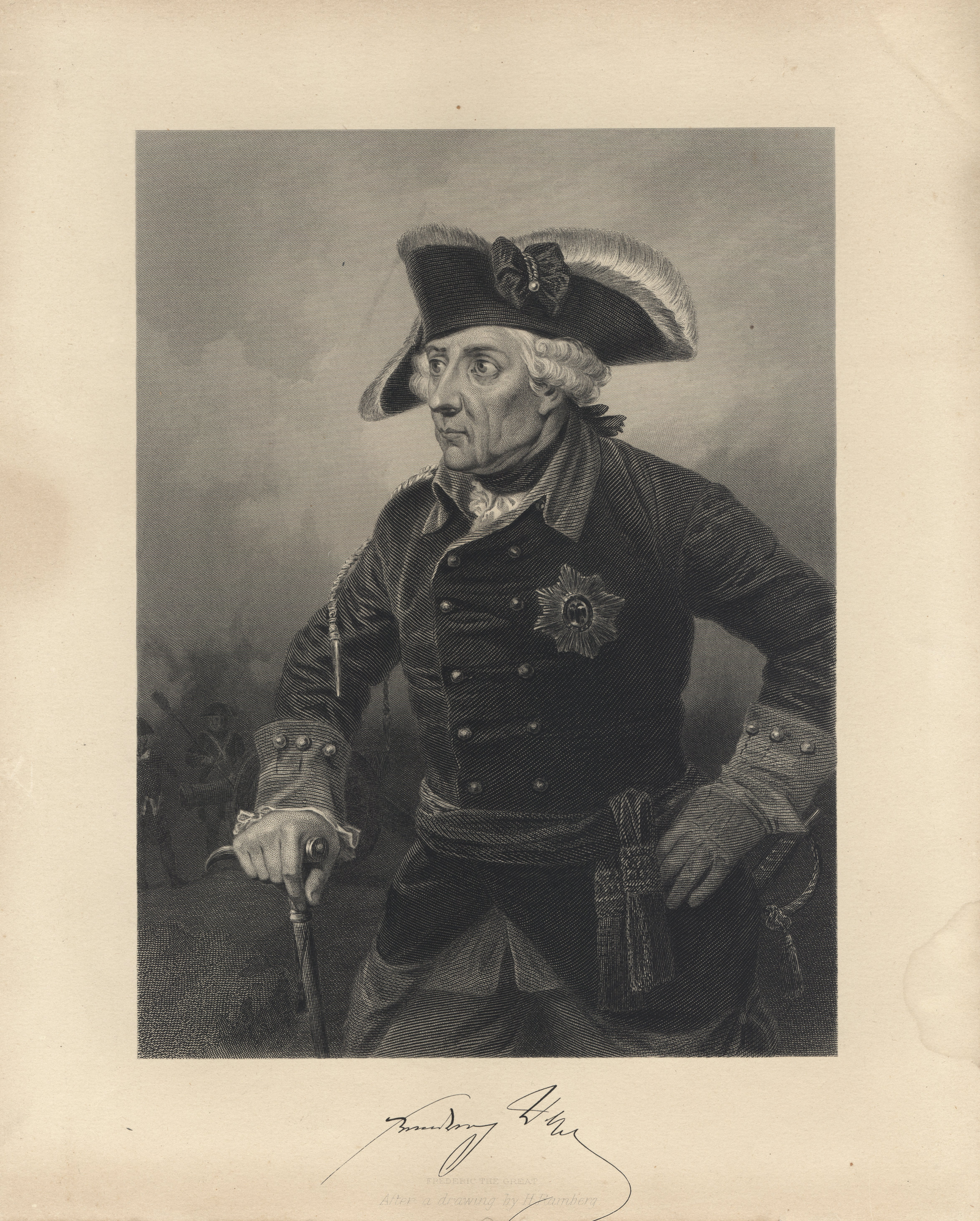 Frederick II of Prussia in Waffenrock (dress tunic).